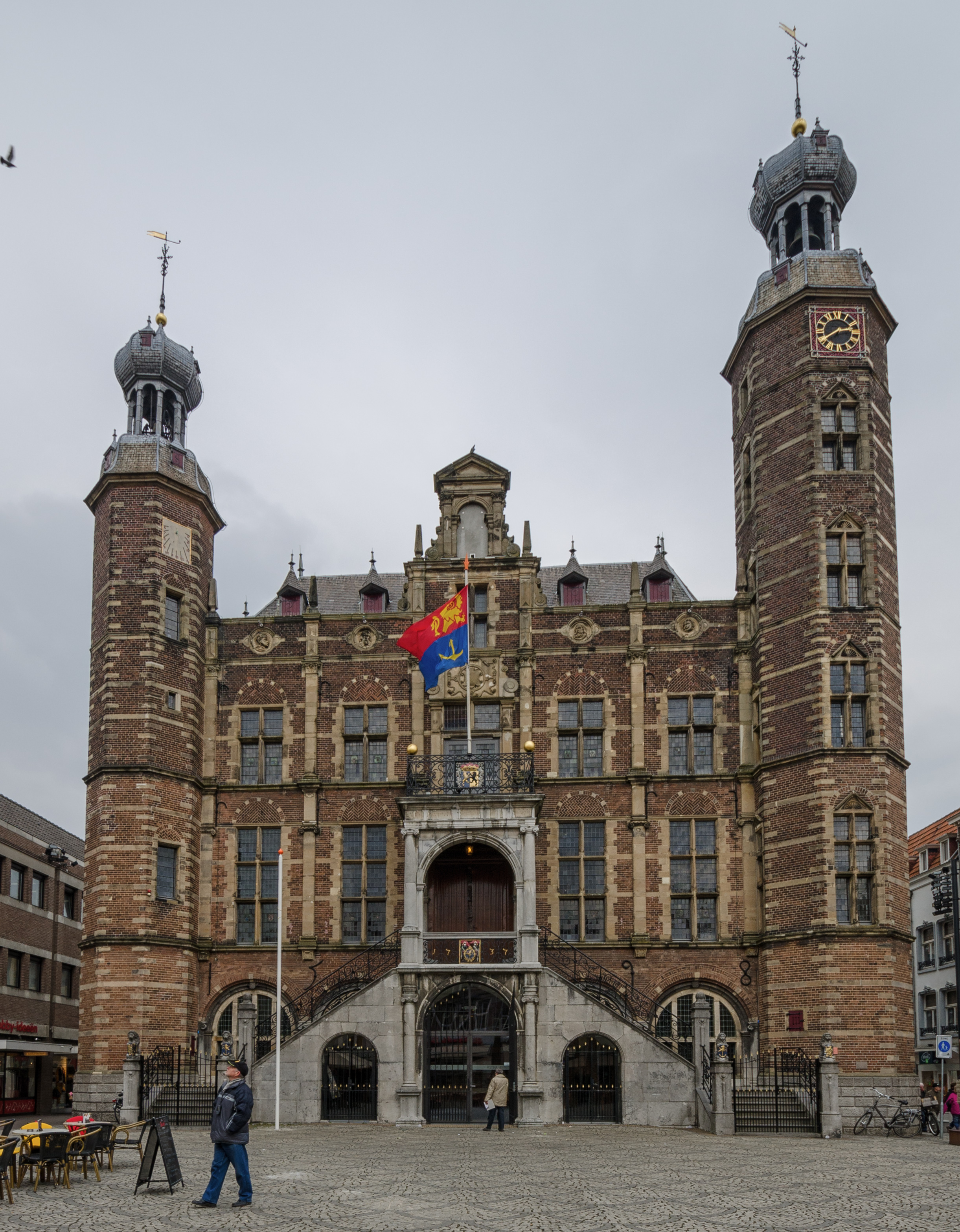 Town hall (Stadhuis) of Venlo